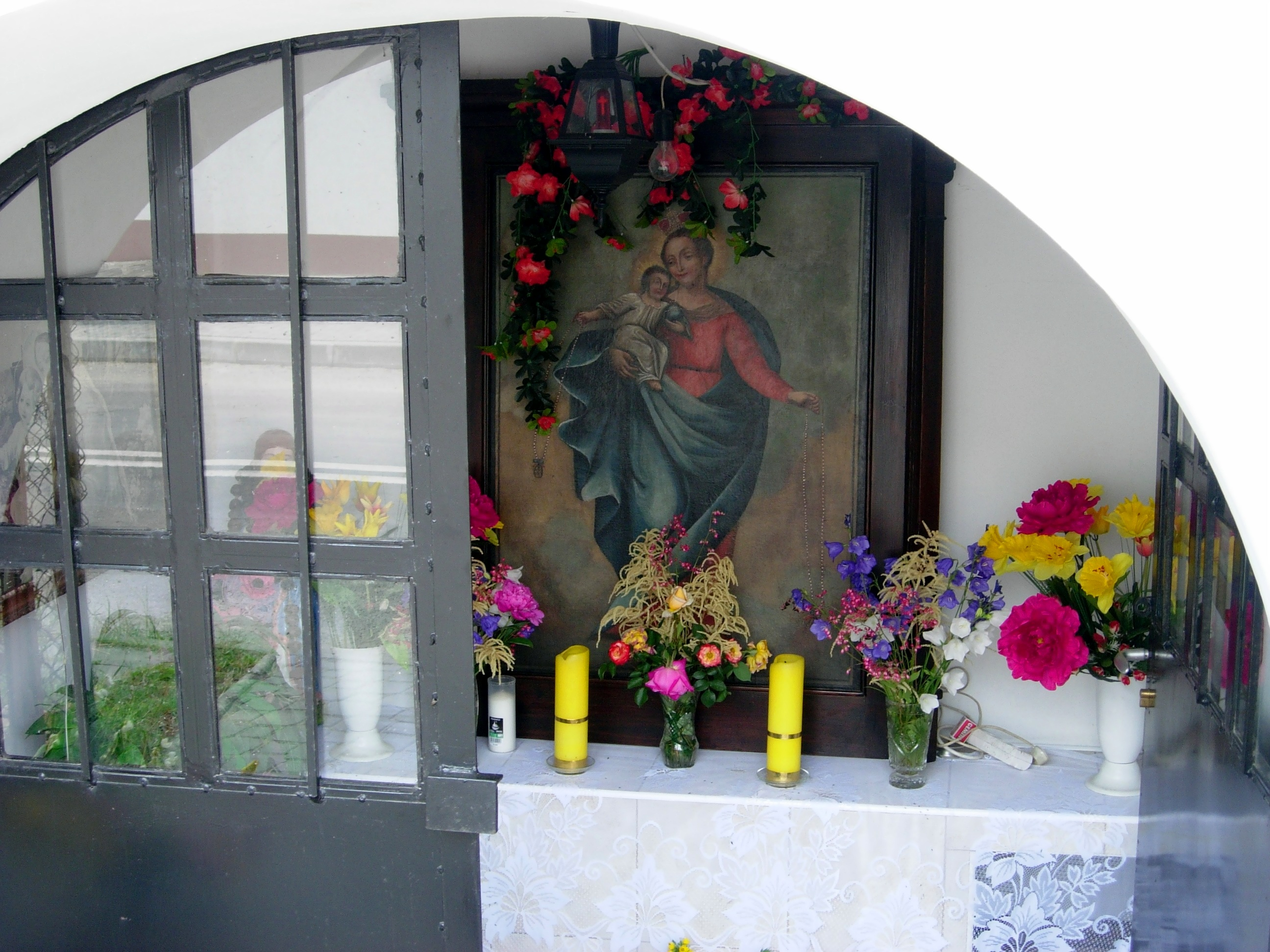 The chapel on Adam Mickiewicz Street, Ożarów (Poland)